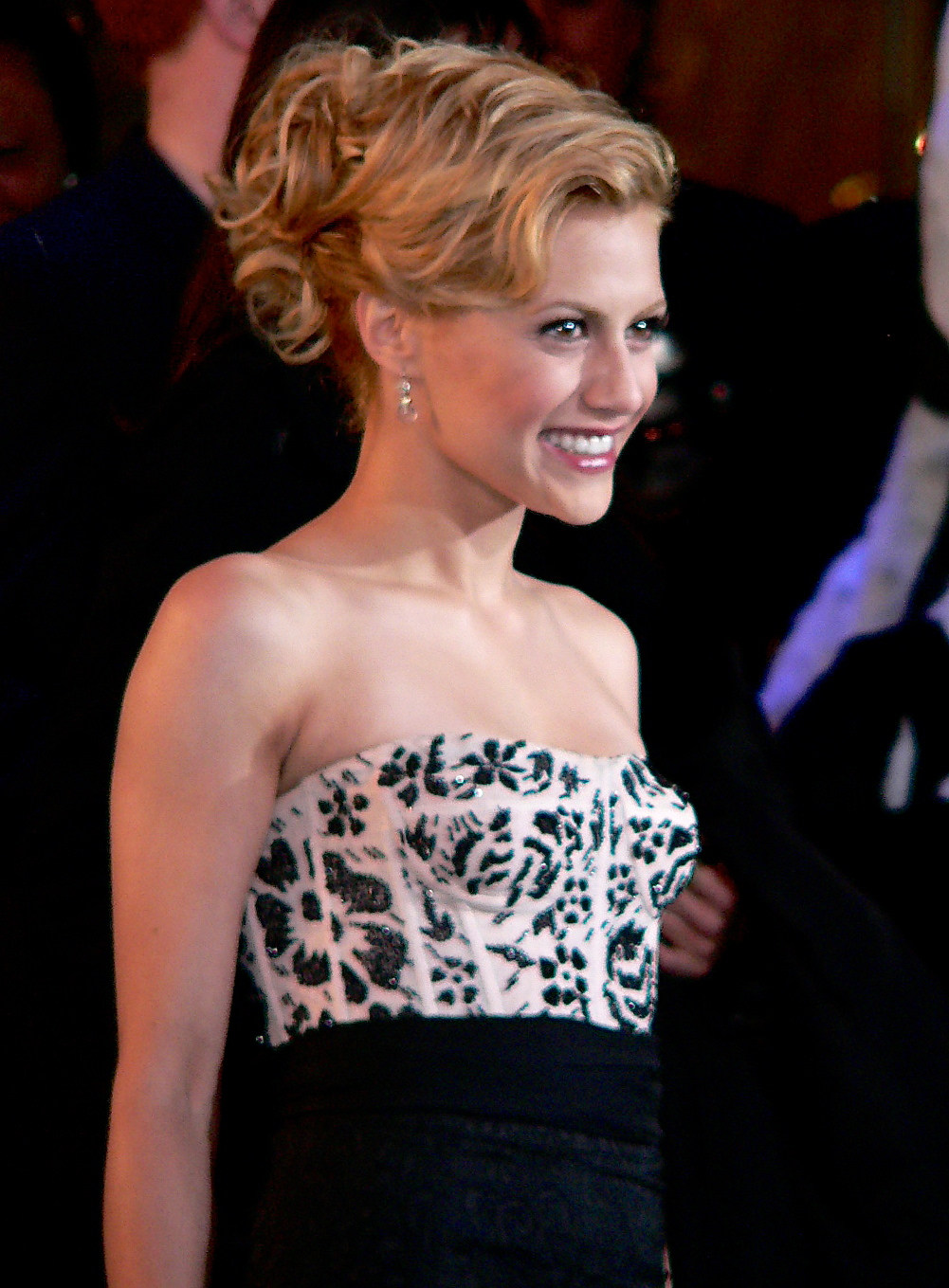 Brittany Murphy at the London premiere of Happy Feet, November 26, 2006. Image derived/cropped from original Flickr upload here.